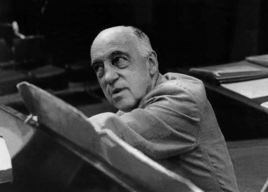 US press photograph of the singer Pierre Bernac